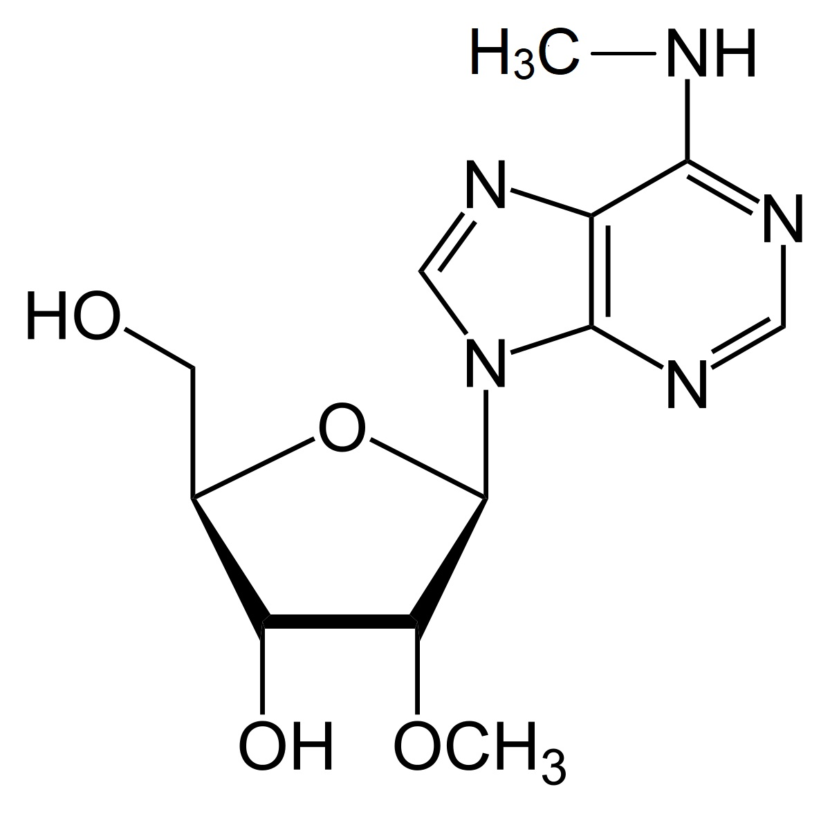 N6-2'-O-dimethyladenosine (m6Am).